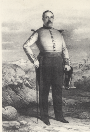 Juan Senen de Contreras - Spanish General during the Peninsular War